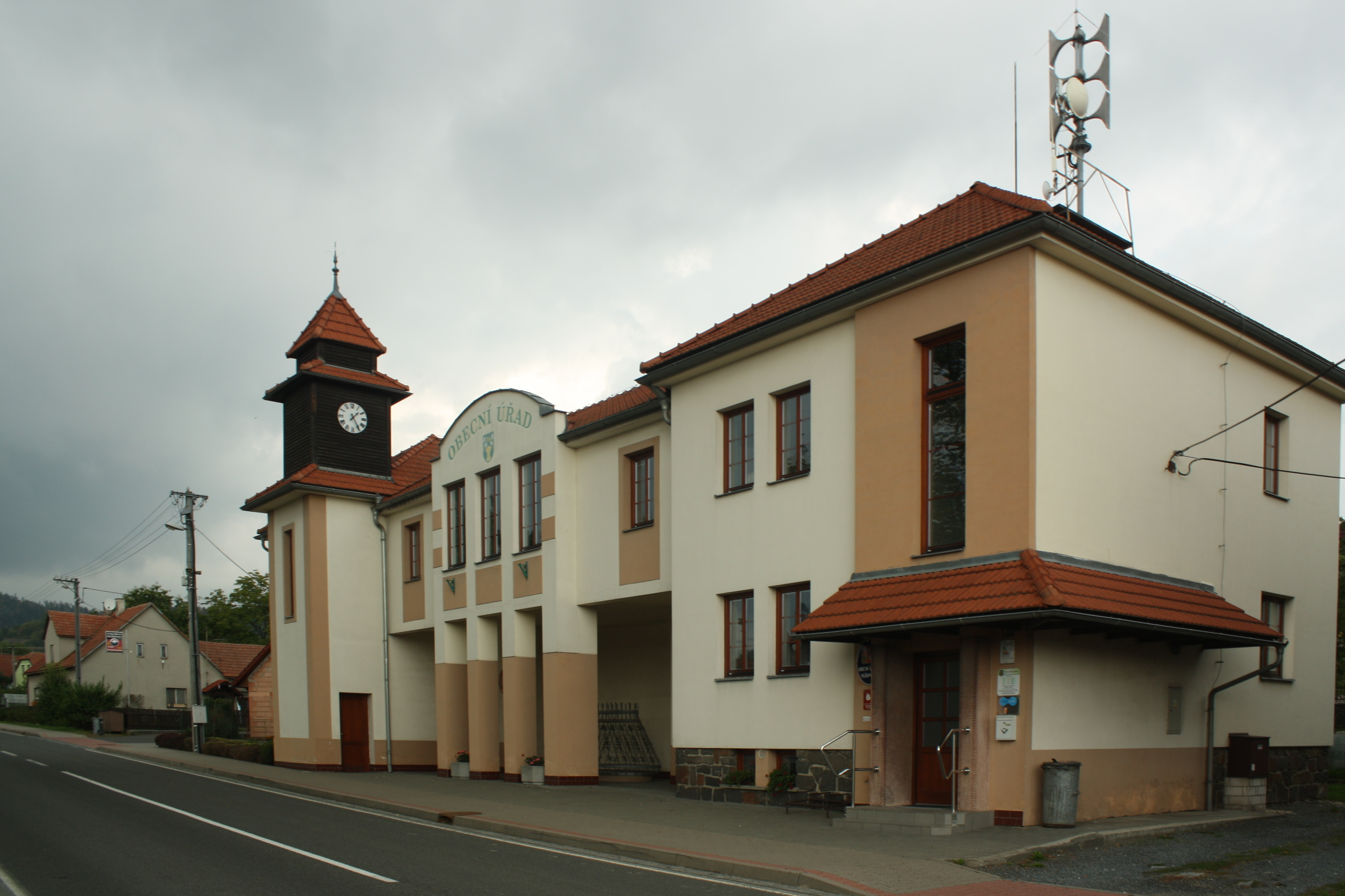 Municipality Olšovec, Přerov District, Olomouc Region, Czechia